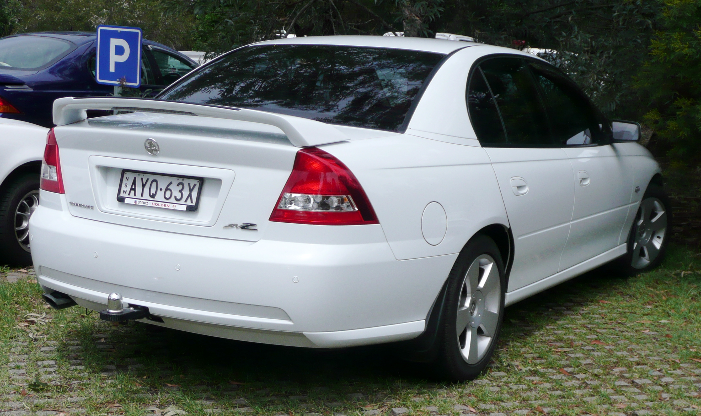 2006 Holden Commodore (VZ) SVZ sedan. Photographed in Audley, New South Wales, Australia.